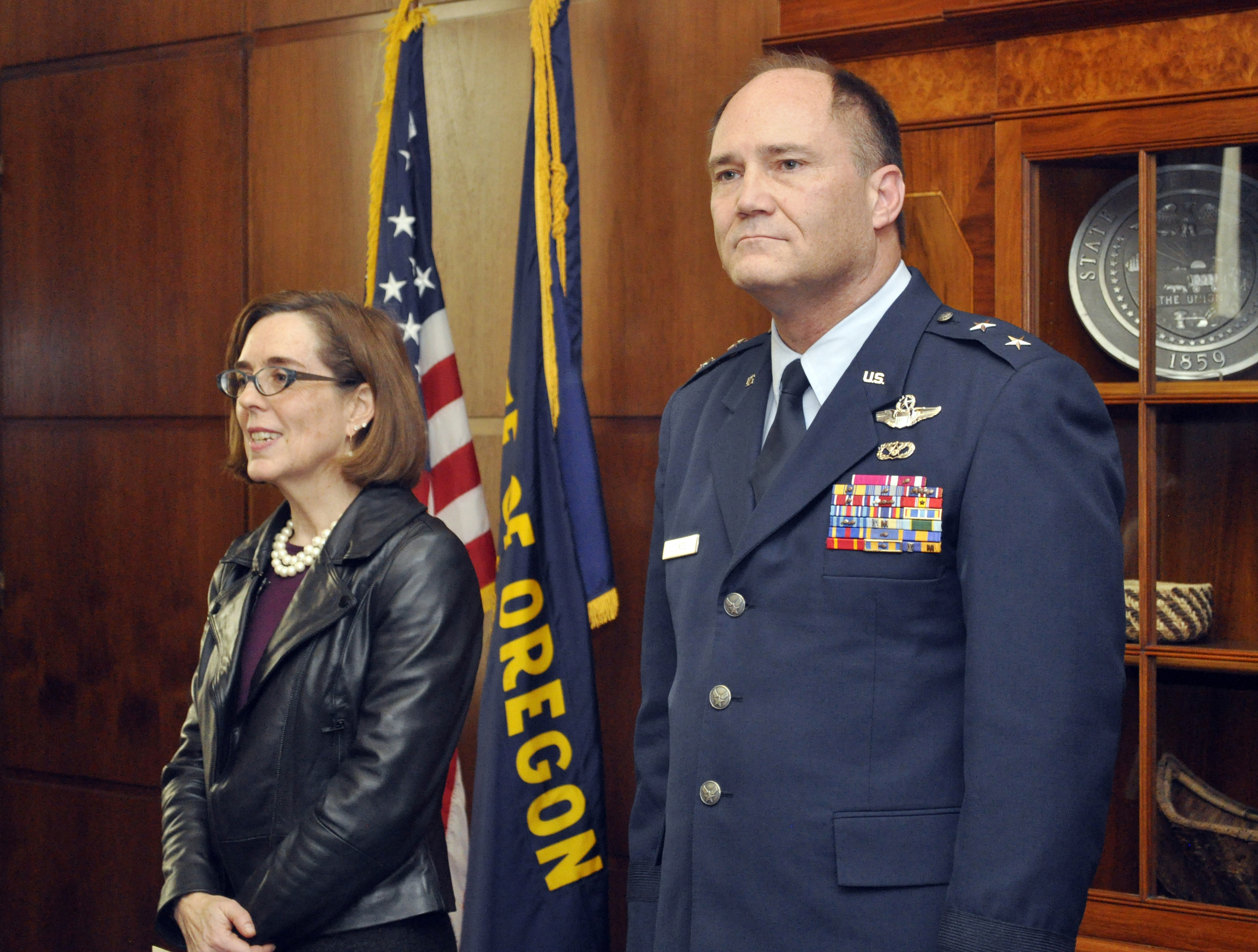 Oregon Governor Kate Brown stands with Maj. Gen. Michael E. Stencel during an investiture ceremony where she administered the oath of office to Oregon’s new adjutant general, Nov. 18, in the Governor’s Ceremonial Room at the State Capitol. The governor appointed Stencel as adjutant general on Sept. 25, 2015, to succeed Lt. Gen. Daniel R. Hokanson. (Photo by Sgt. 1st Class April Davis, Oregon Military Department Public Affairs)